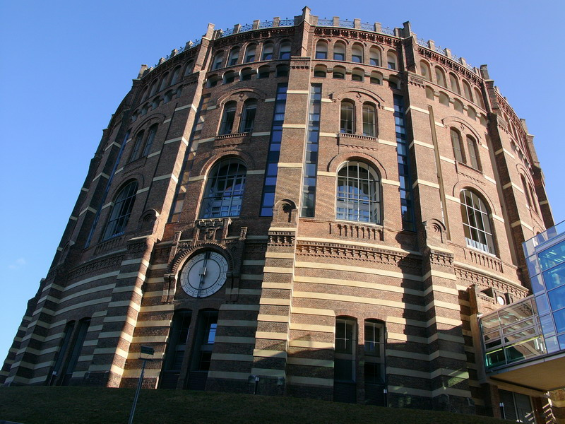 Gasometer C in Vienna, Austria